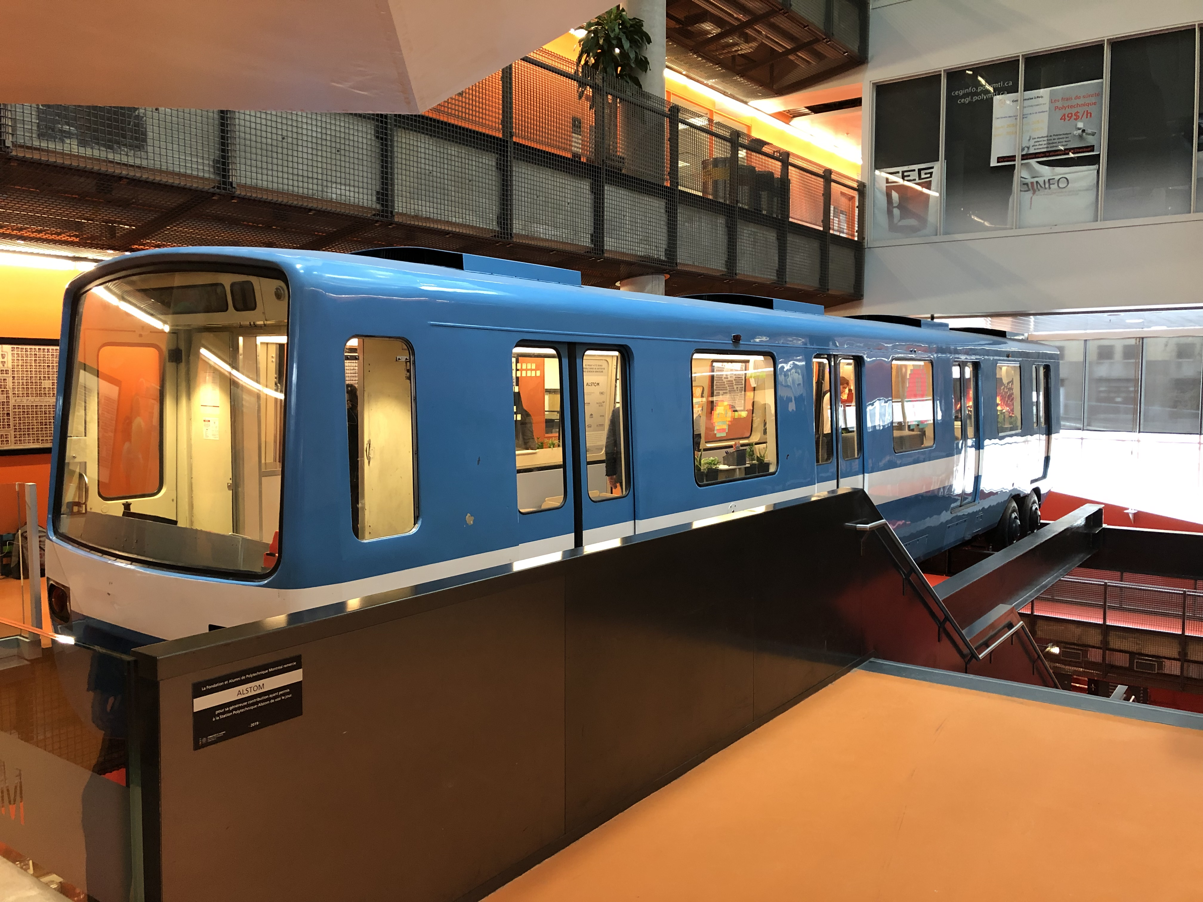 École Polytechnique de Montréal MR-63 Metro Car Left Side